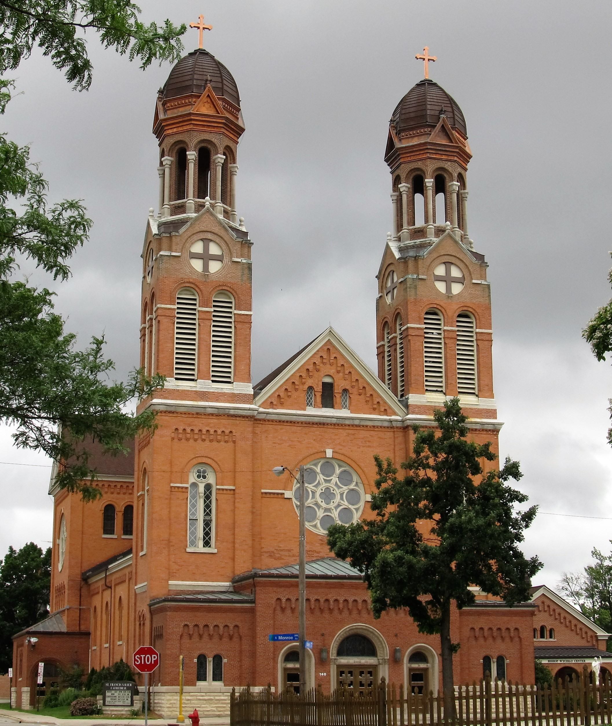 Saint Francis Xavier Cathedral in Green Bay, Wisconsin is the seat of the Catholic Diocese of Green Bay.